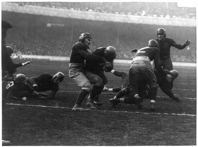 Georgia Tech running back Red Barron scoring on Penn State